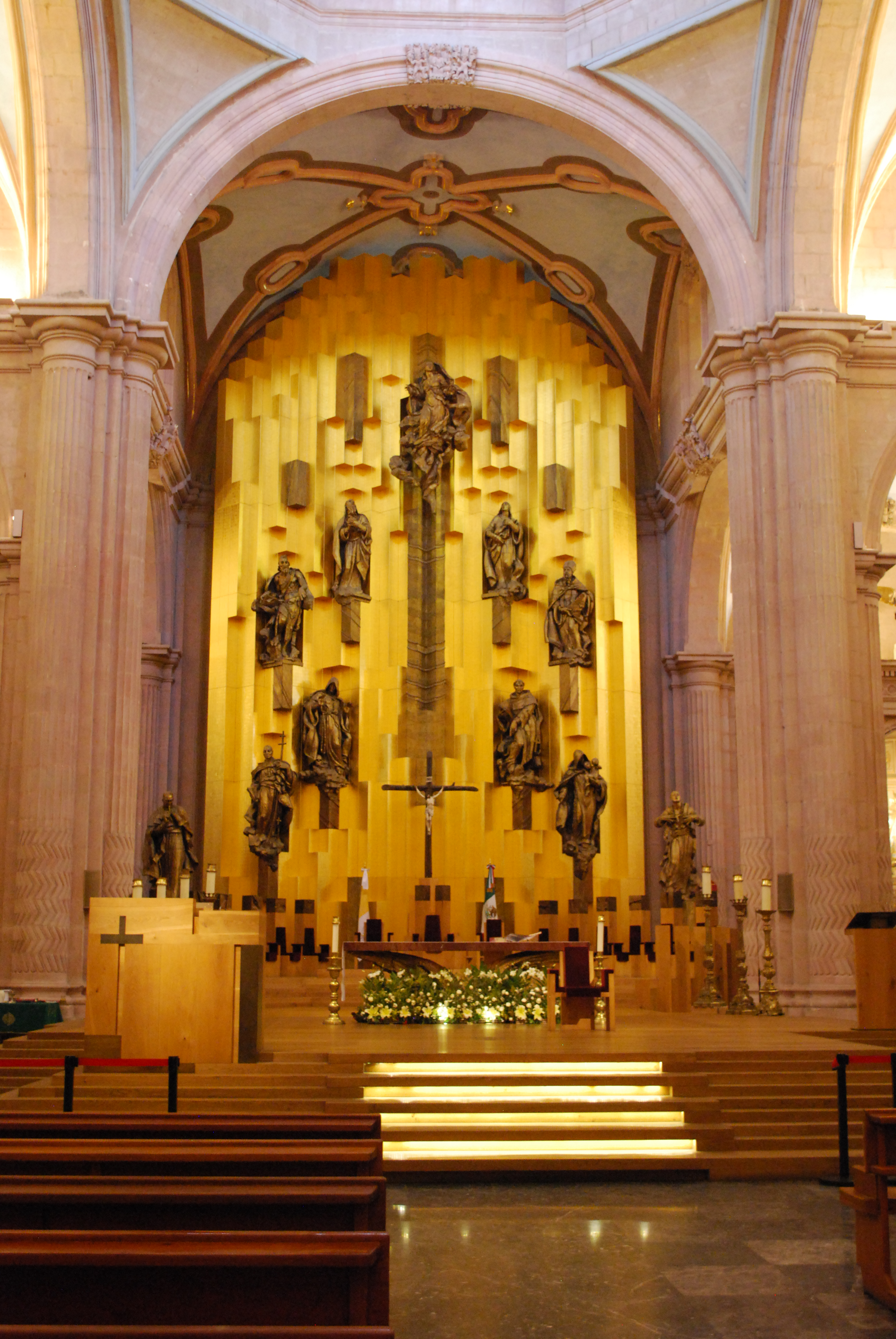 Main altar in the Cathedral of Zacatecas, Mexico